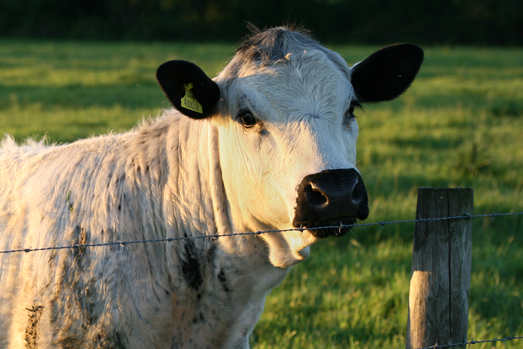 Young British White cow somewhere in England